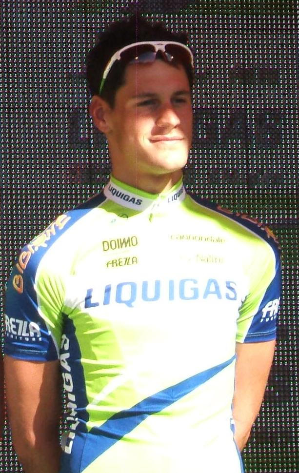 Named cyclist at the en:2009 Tour Down Under team presentation